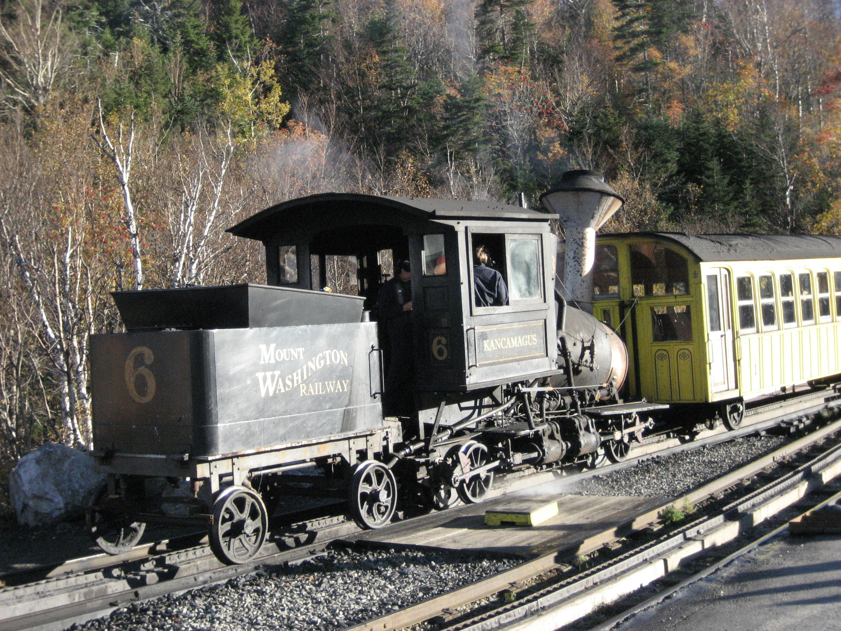 Locomotive Kancamagus of the Mount Washington Cog Railway Author: Dan Crow Date: 9th. October 2006